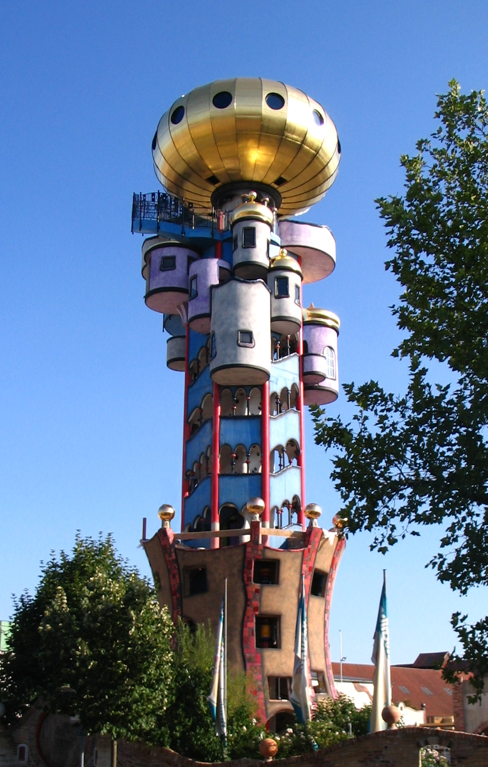 Abensberg Kuchlbauer observation tower — a sculptural view tower at the Brauerei Kuchlbauer (beer garden) in Abensberg, Lower Bavaria, Germany. Designed by artist Friedensreich Hundertwasser, and built in 2010.